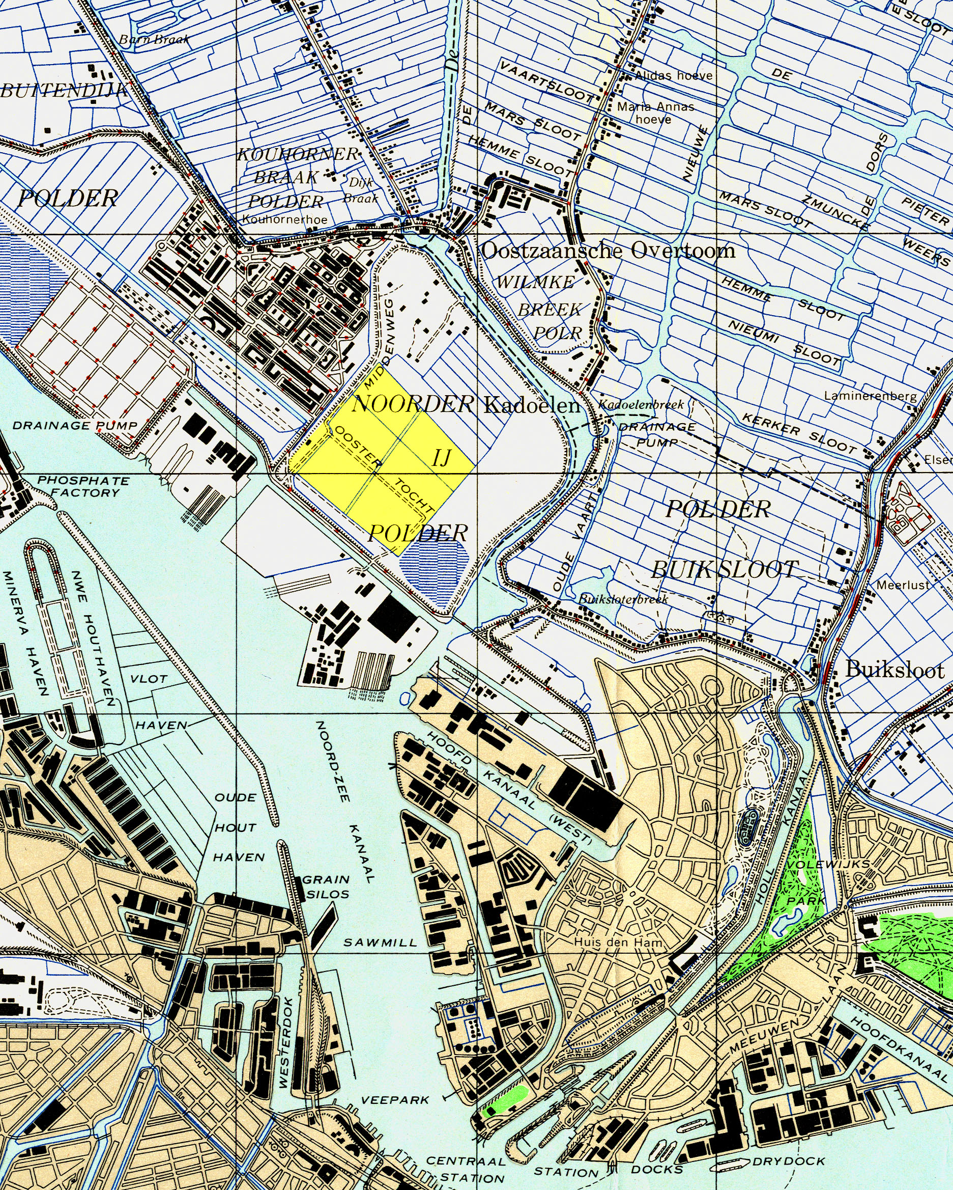 A map of the historical airfield Buiksloot, north of Amsterdam